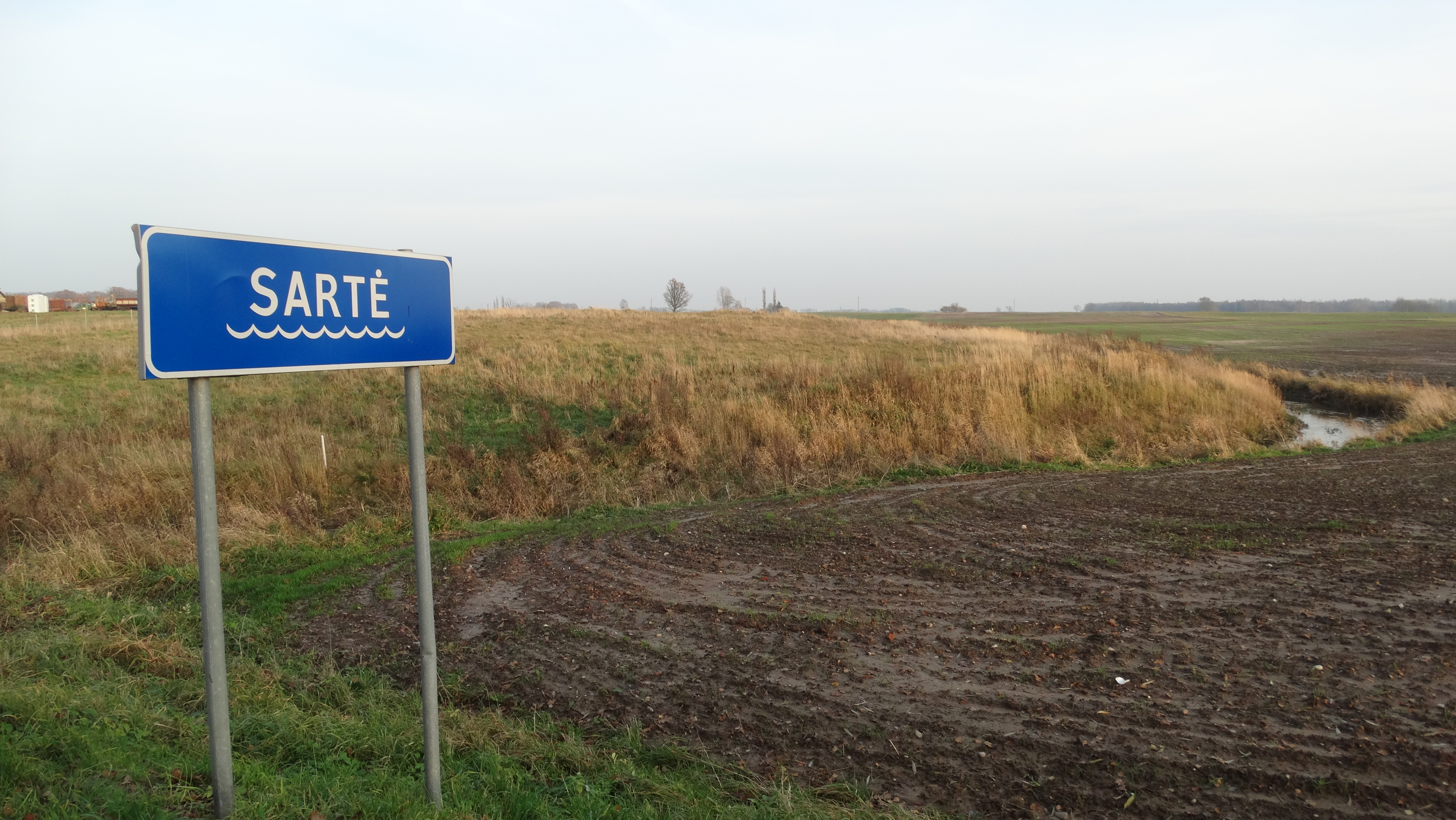 Sartė River, Sartininkai, Tauragė district, Lithuania